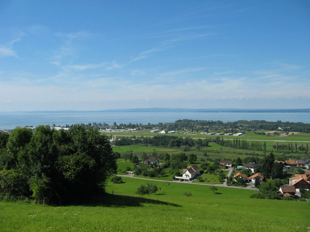 Airport St. Gallen-Altenrhein view from south on top of the Buechberg